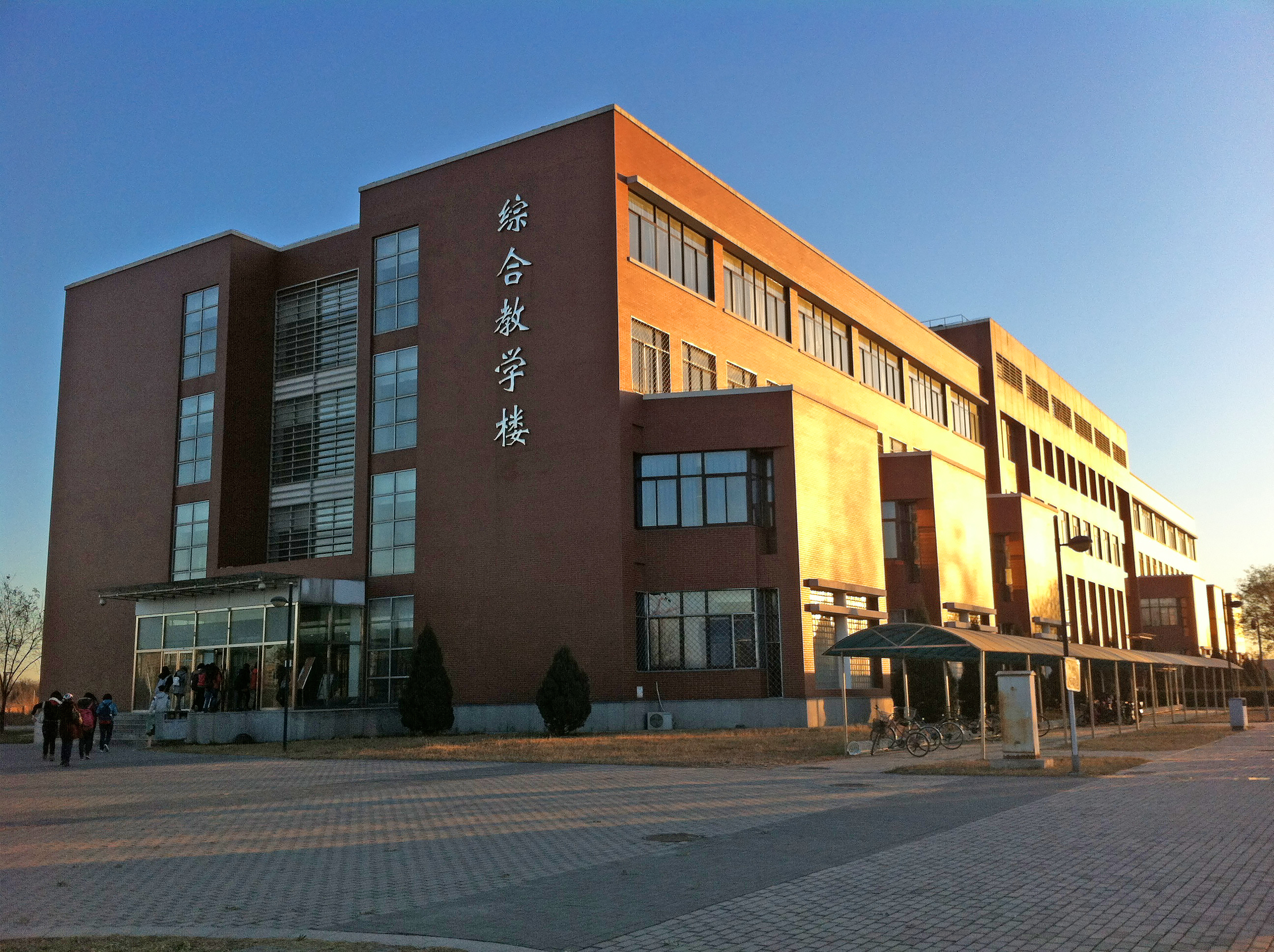 After all, this building witnessed our freshman year.